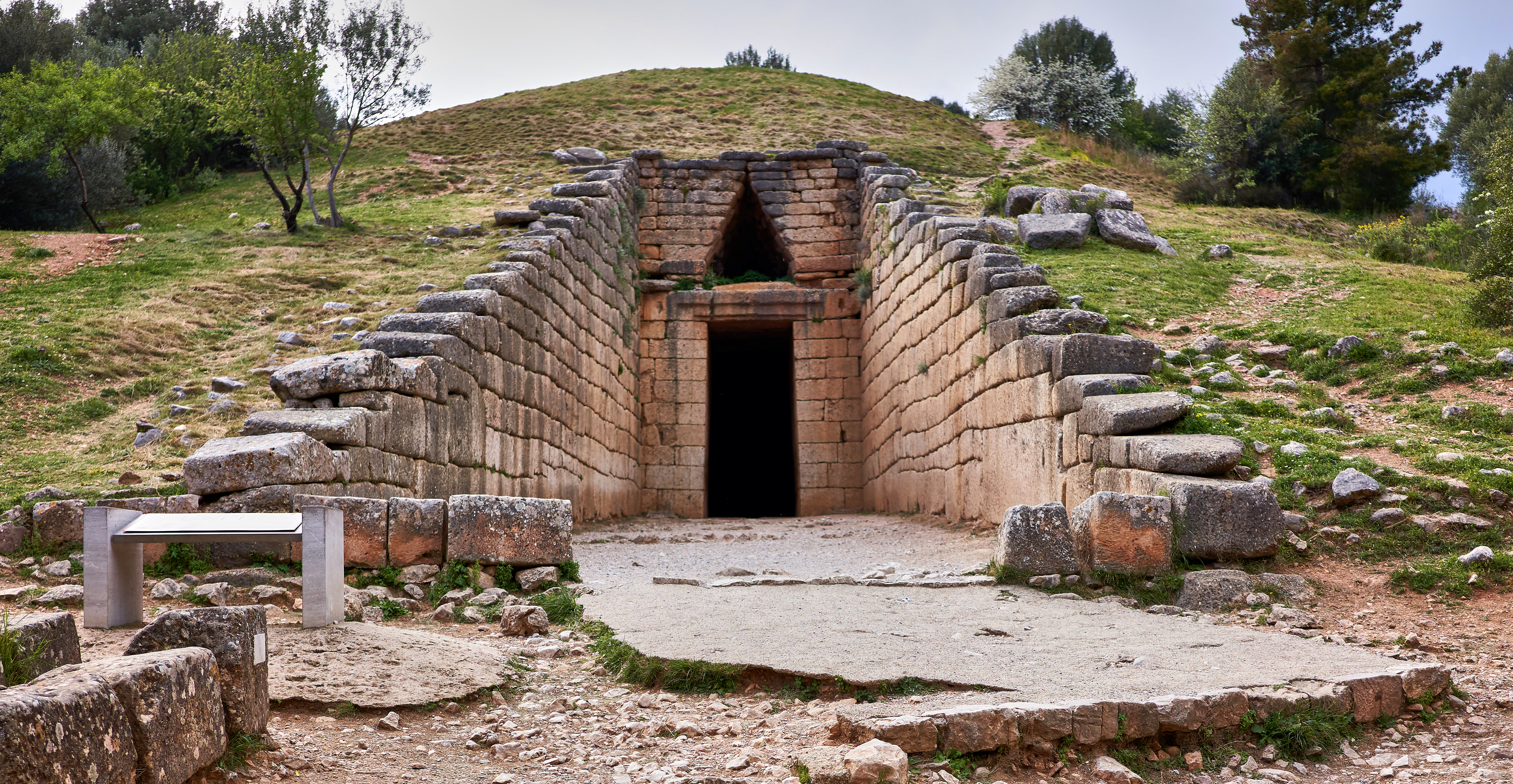 The tholos tomb of Agamemnon in Mycenae. Argolis, Greece.